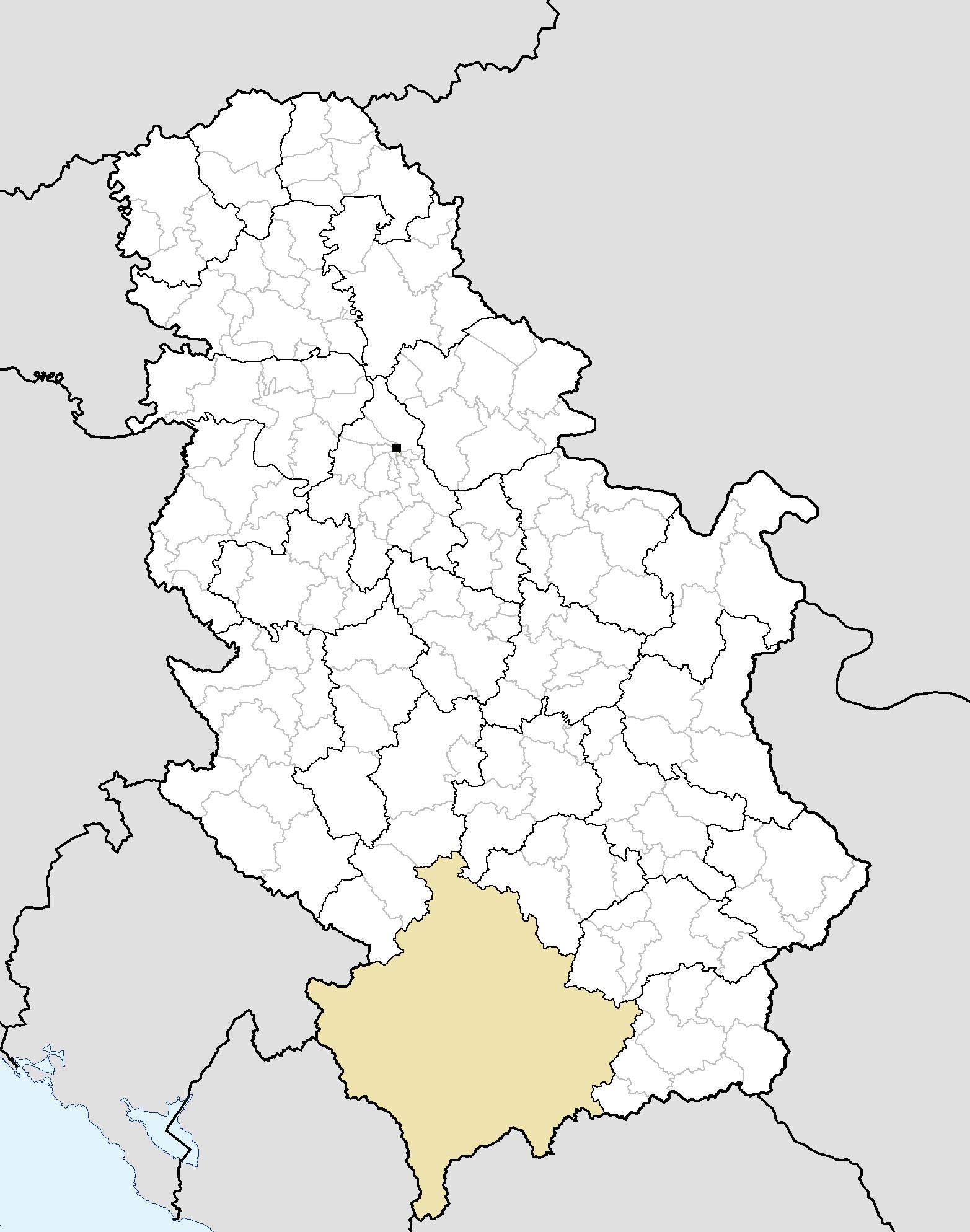 Blank map of the Municipalities of Serbia. The yellow-brown-shaded area is Kosovo, not recognized by Serbia and several other nations.